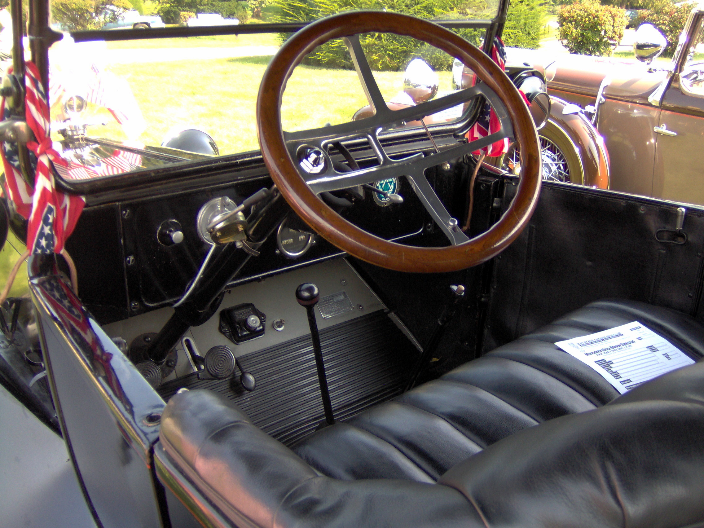 1920 Dodge Brothers touring car